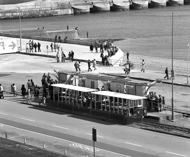 Volk's Electric Railway Showing two of the older type toastrack cars at the station at the east end of the line, which I think was then called Black Rock, but now is Marina.